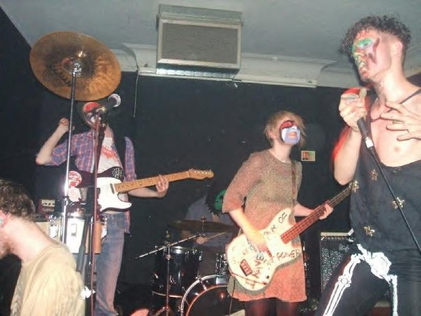 Yeborobo